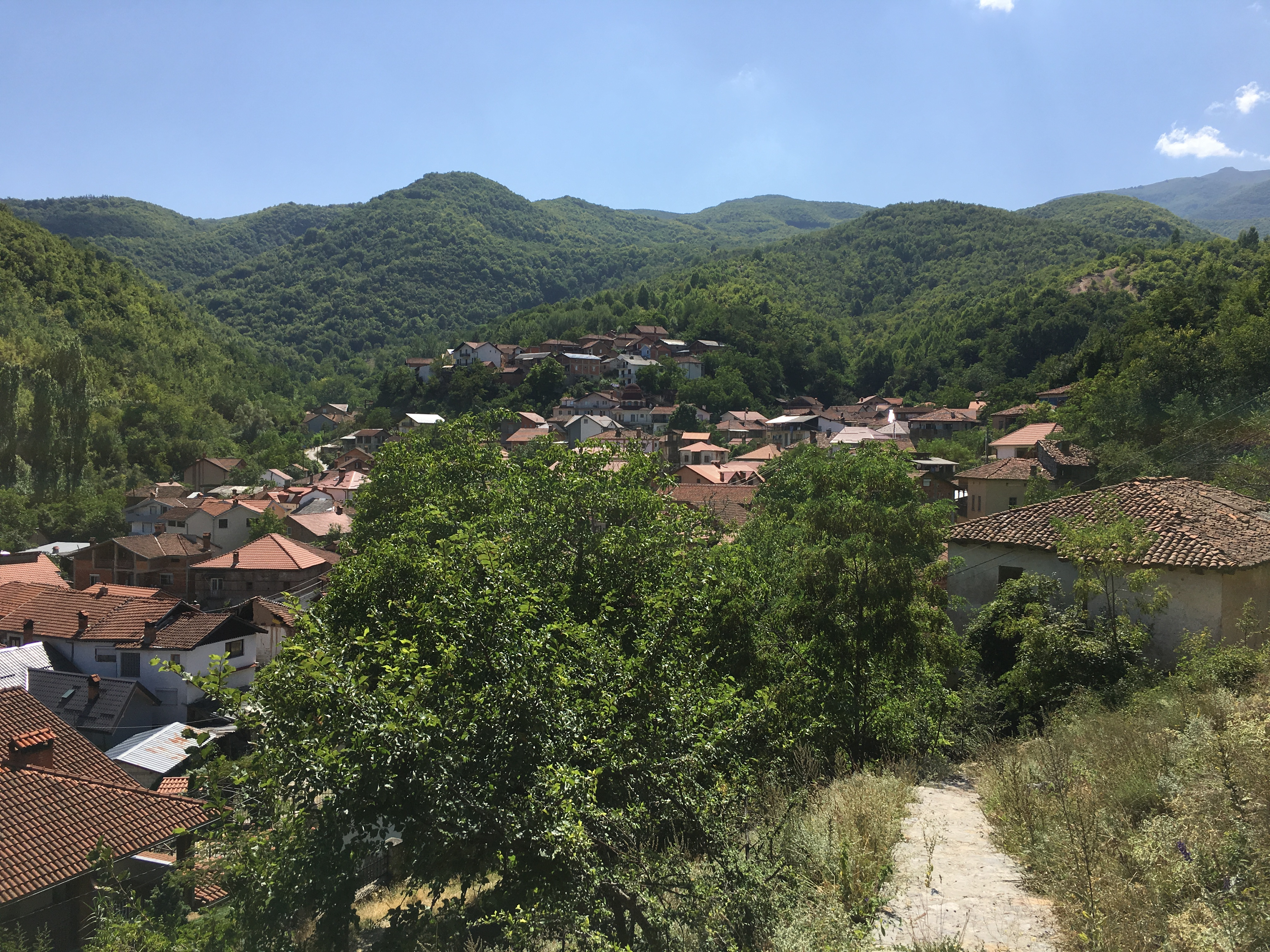 Panoramic view of Gorno Maalo of the village of Oktisi